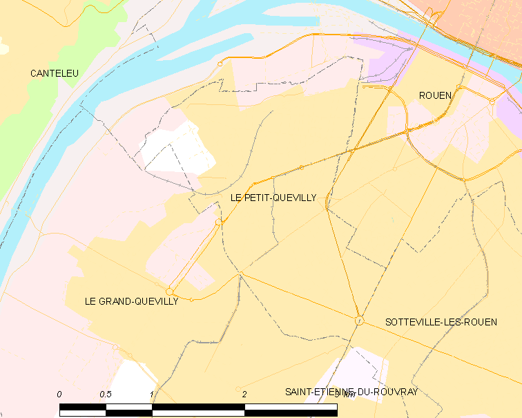 Map of French municipality Le Petit-Quevilly